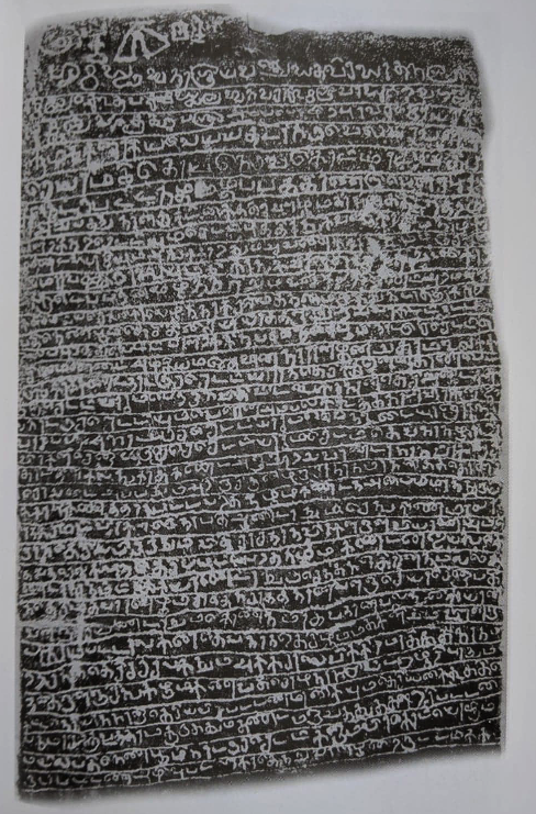 Vahalkada slab inscription, 11th century AD i